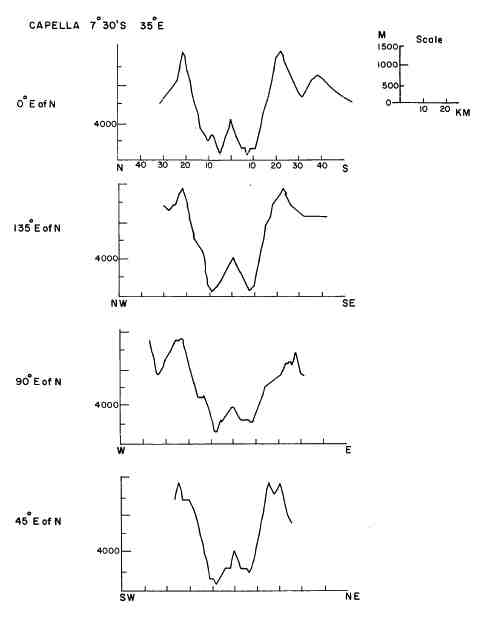 Capella crater cross section